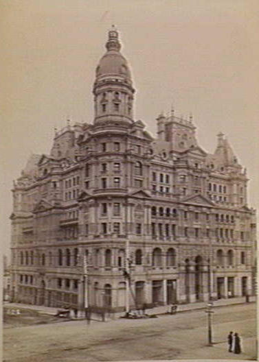 Federal Coffee Palace, corner of King and Collins Streets, Melbourne, Australia, in 1890. Demolished in 1972.